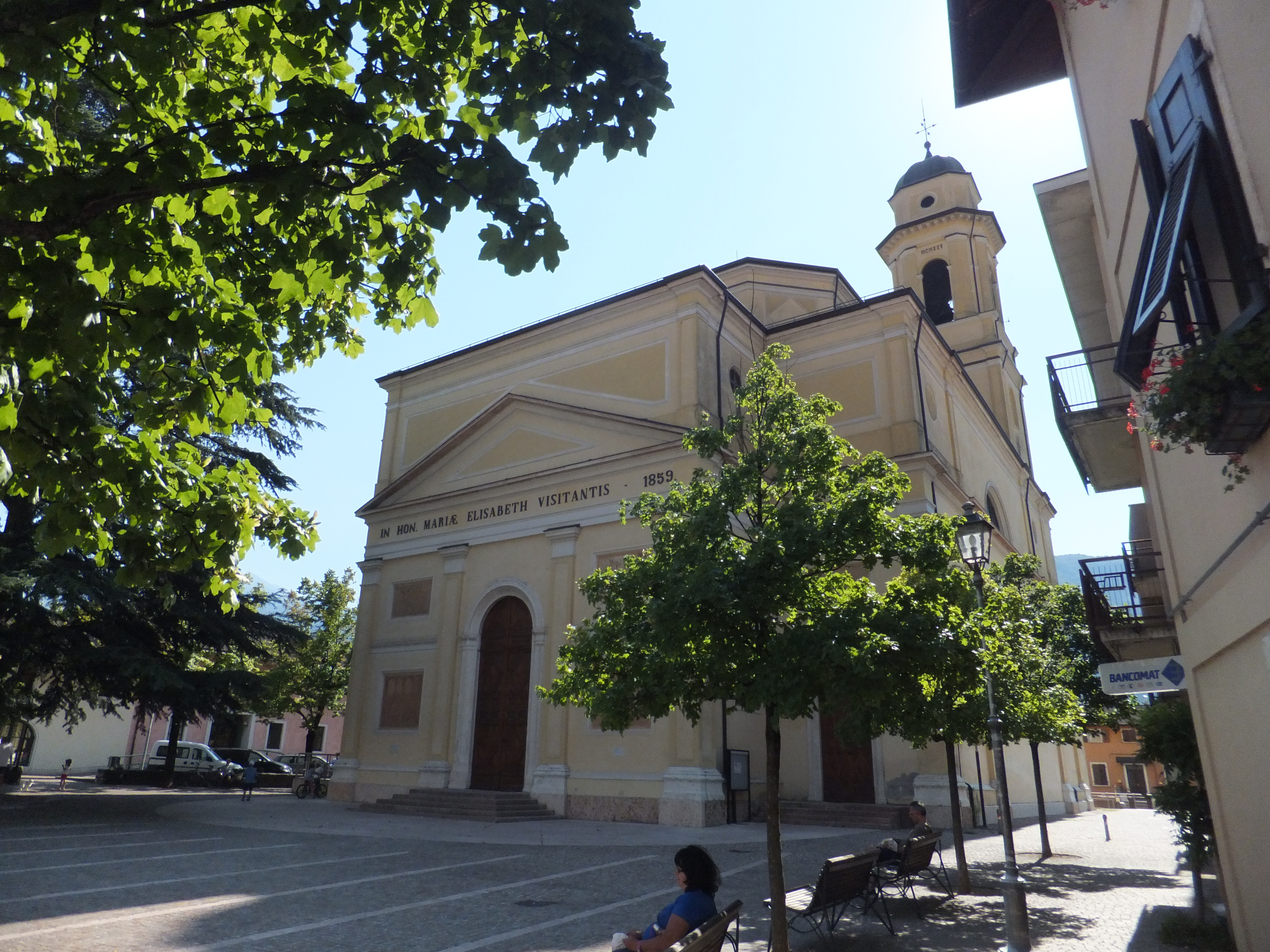 Gardolo (Trento, Italy) - Church of the Visitation